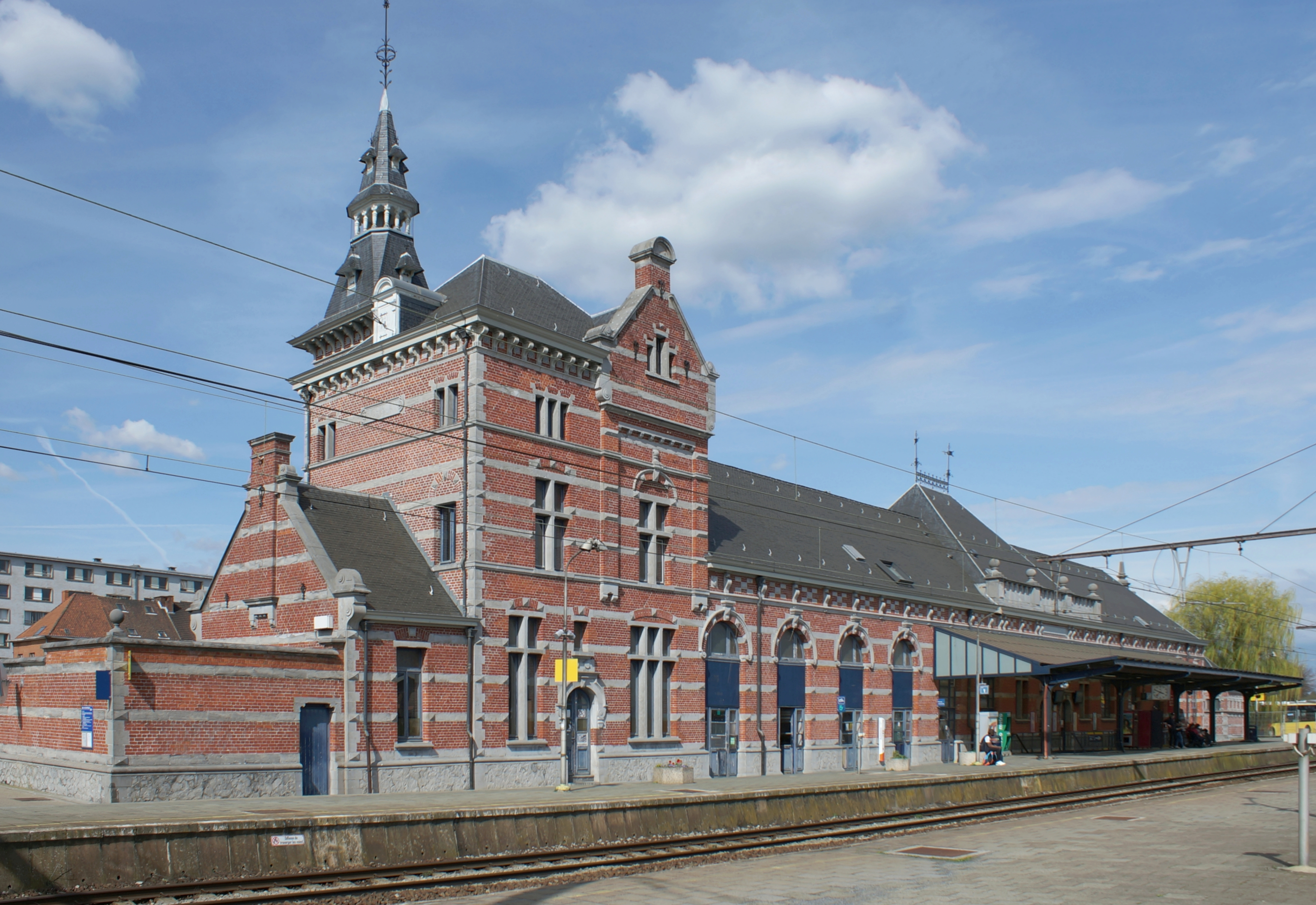 Station Saint-Ghislain - Facade on the side of the tracks - Work by architect Henri Fouquet